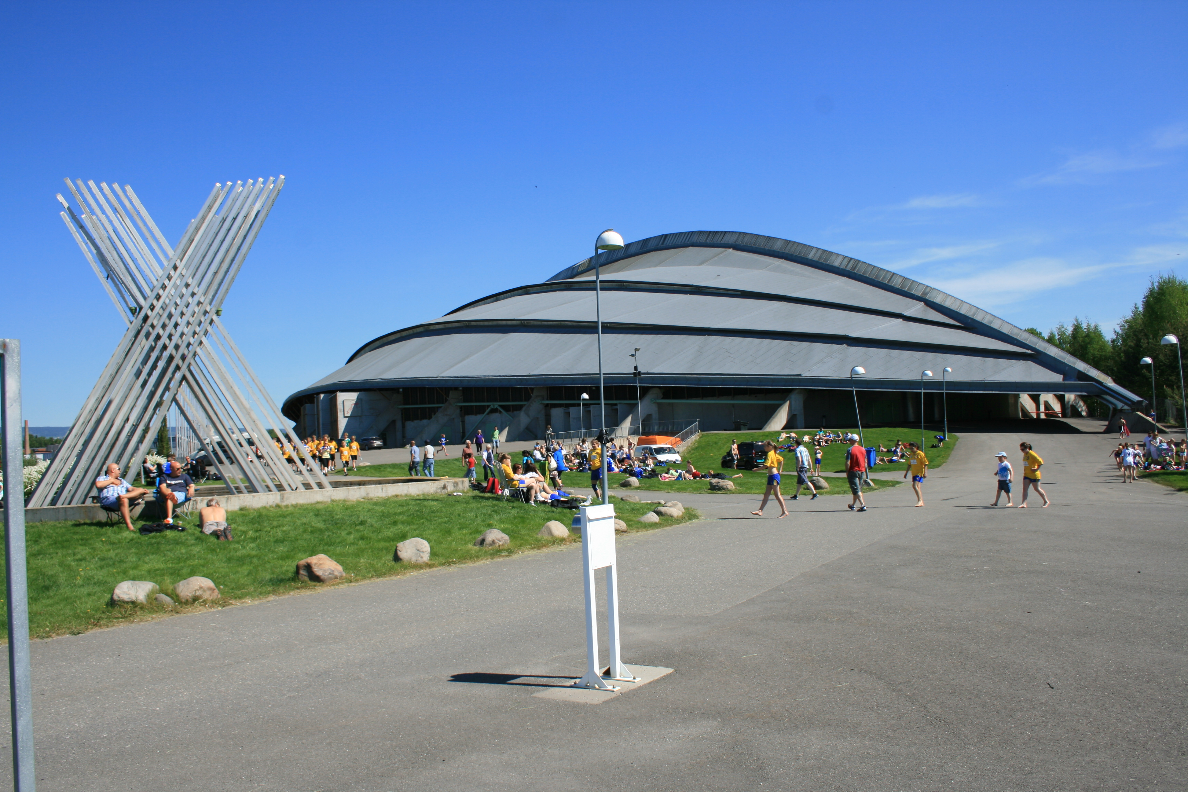 Hamar Olimpiahall-the Viking Ship Arena